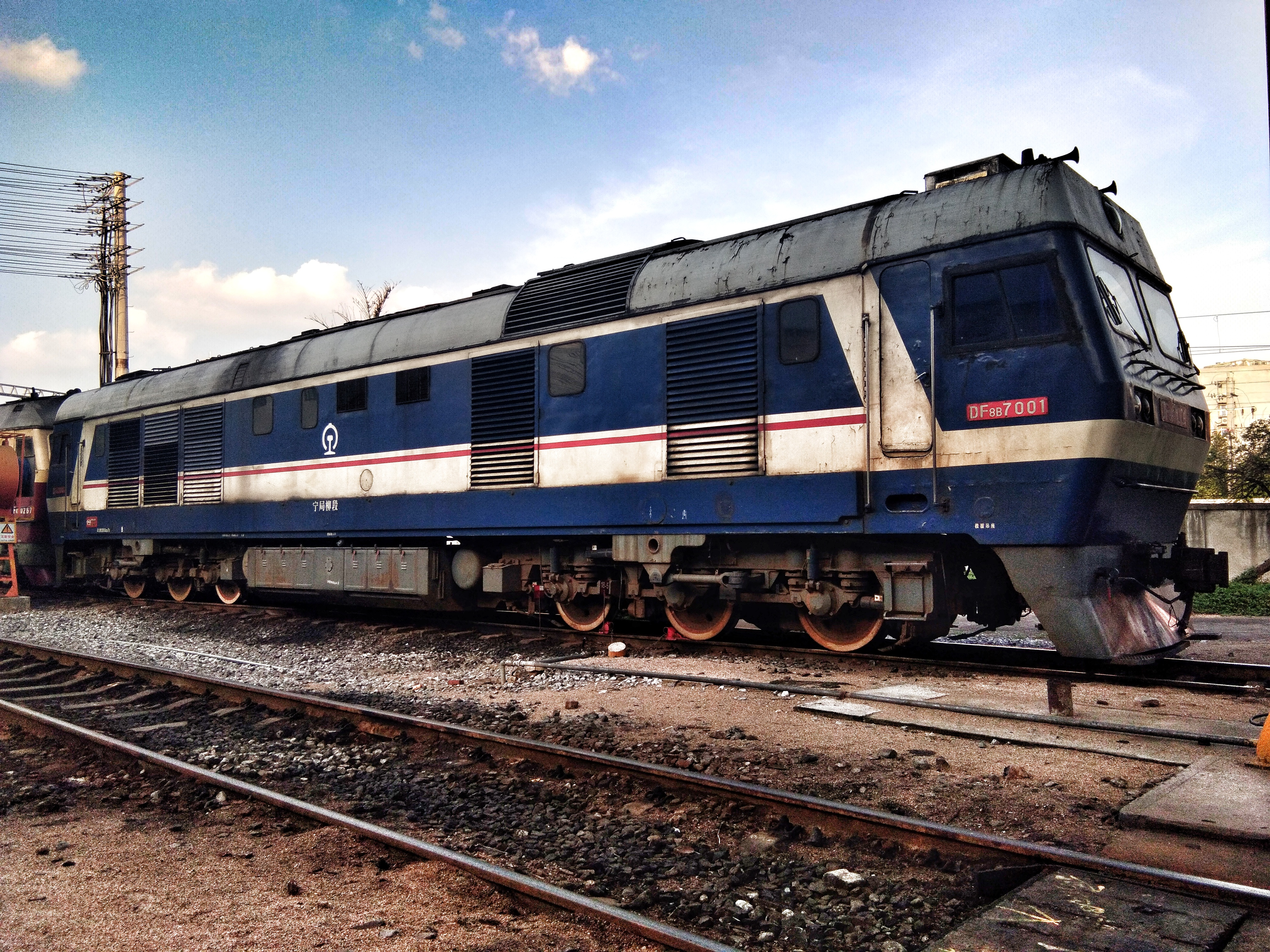 DF8B-7001 in Liuzhou Locomotive Depot, 9th September, 2017.